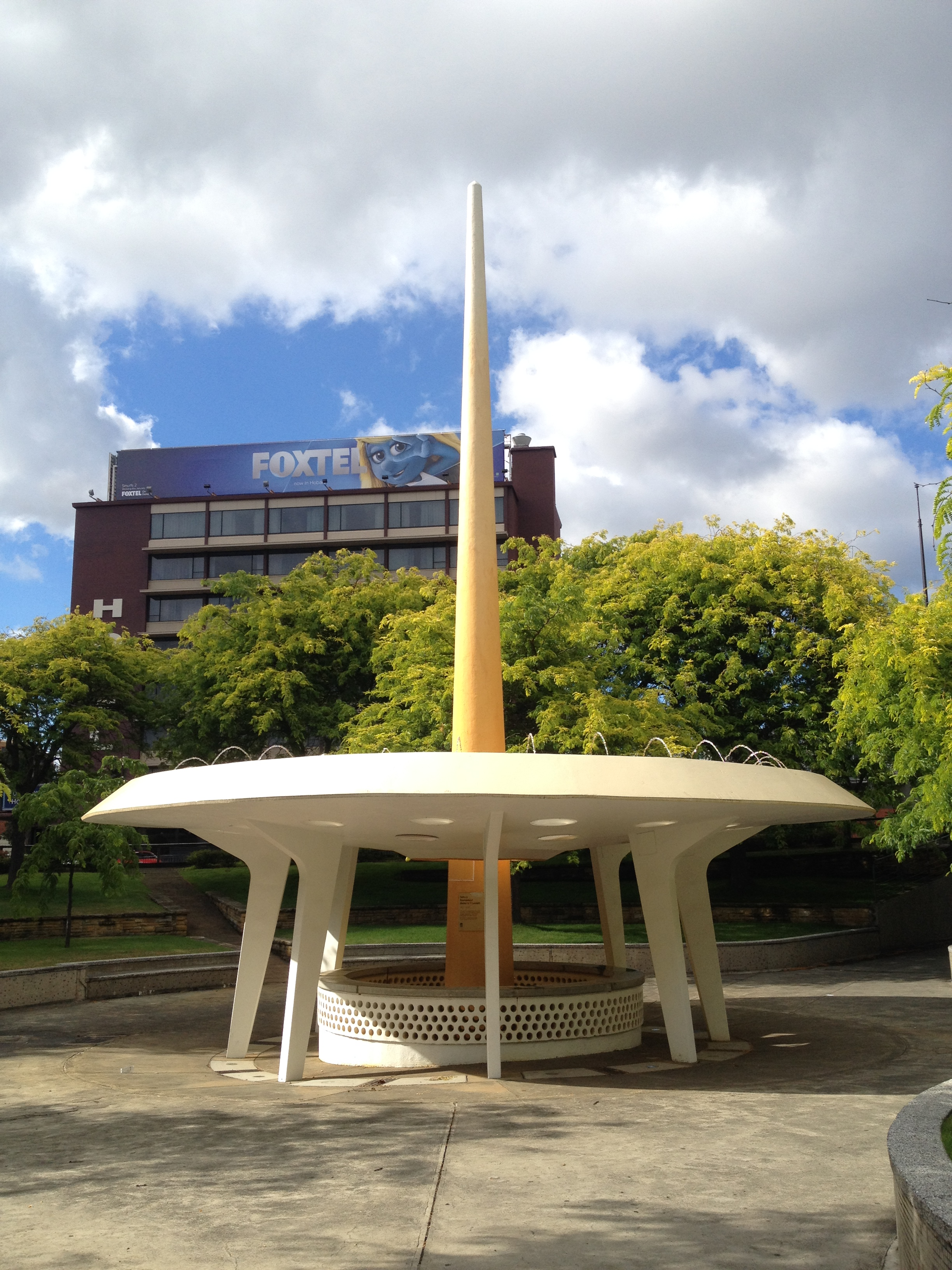 Railway Roundabout Memorial Fountain 1963 - 2013. This place commemorates the 50th anniversary of this memorial fountain, originally designed by Geoff Parr, Rod Cuthbert and Vere Cooper. Refurbished in 2013 incorporating a new mosaic by Tom Samek.